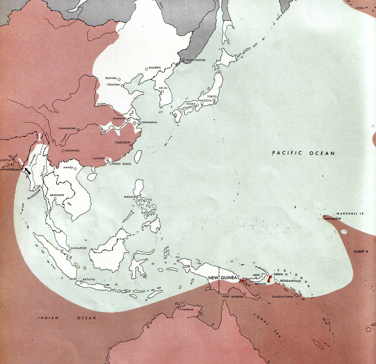 Map of the front against Japan as of 15 Feb 1944: This map is taken from the source "Atlas of the World Battle Fronts in Semimonthly Phases to August 15th 1945: Supplement to The Biennial report of The Chief of Staff of the United States Army July 1, 1943 to June 30 1945 To the Secretary of War". (See Cover, Forward and Map details)